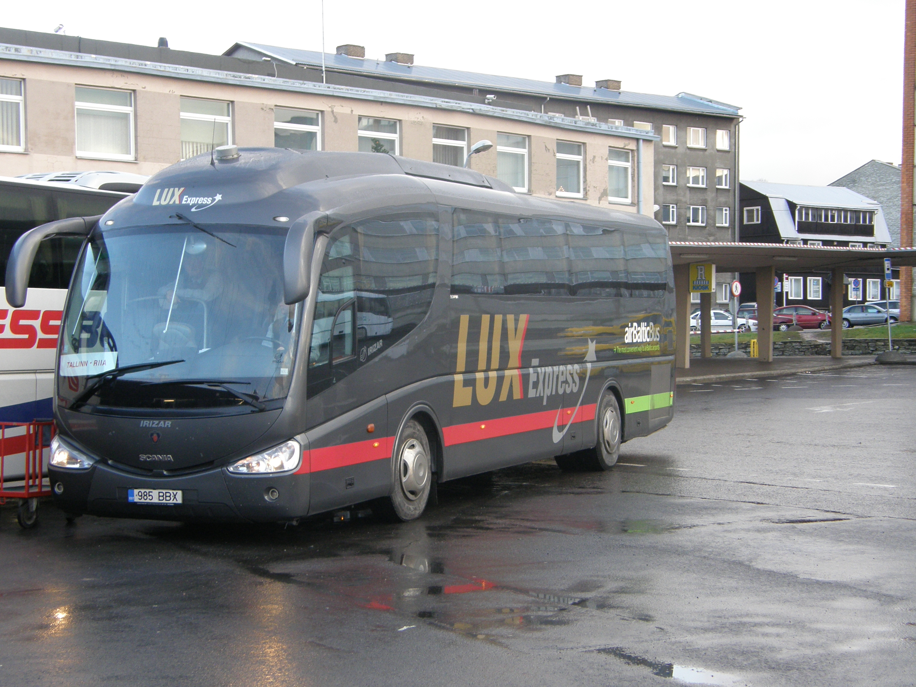 Lux Express' Scania Irizar PB in TallinnUnknown